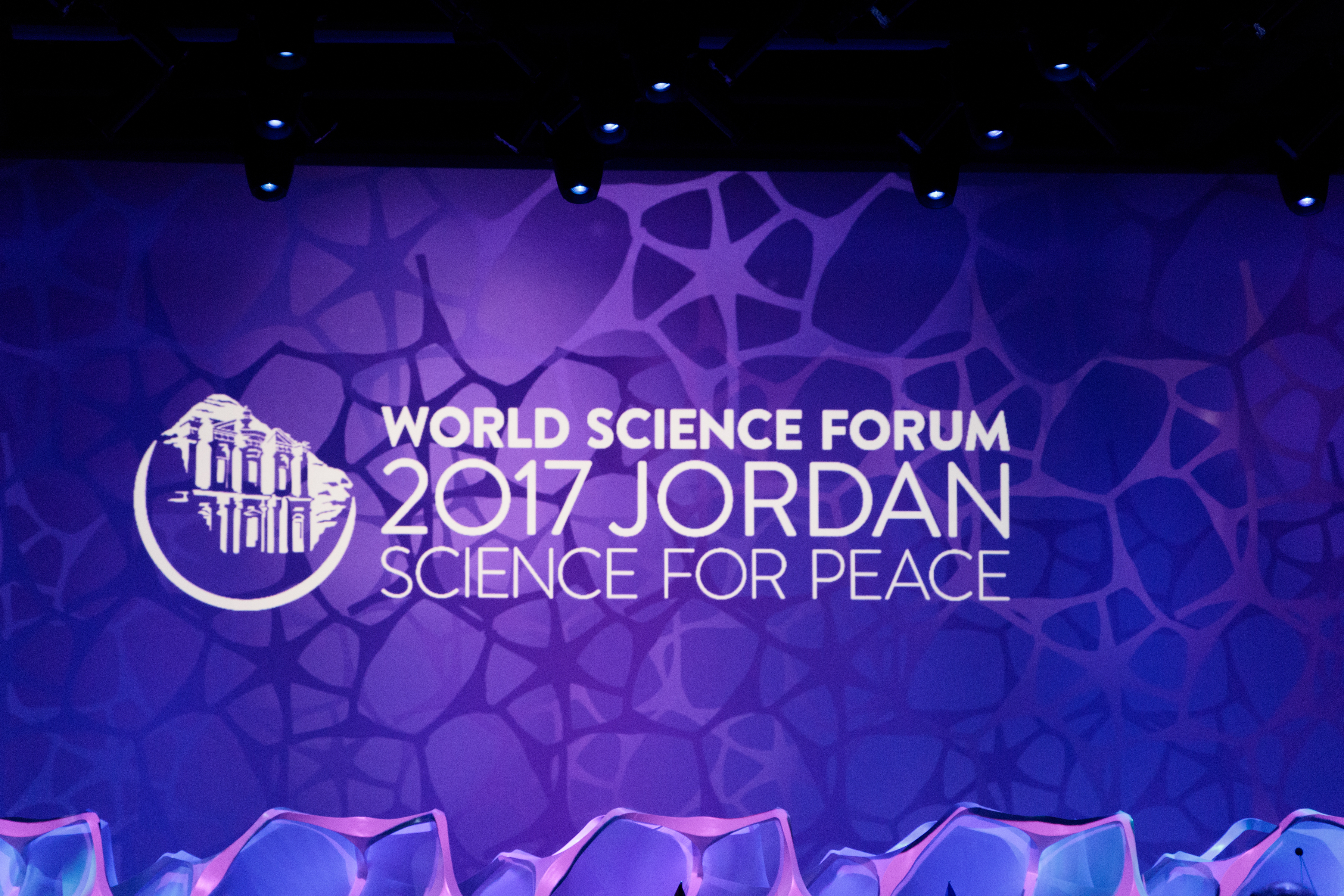 World Science Forum 2017